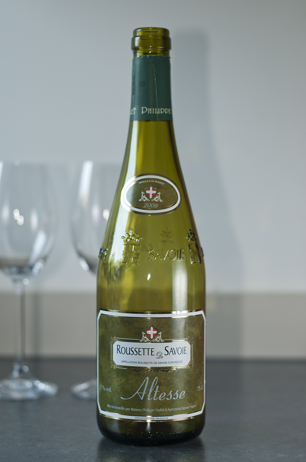 A French wine from the Savoy region made from Philippe Viallet. This bottle is unique in that it shows two synonyms for the same grape-Roussette and Altesse.